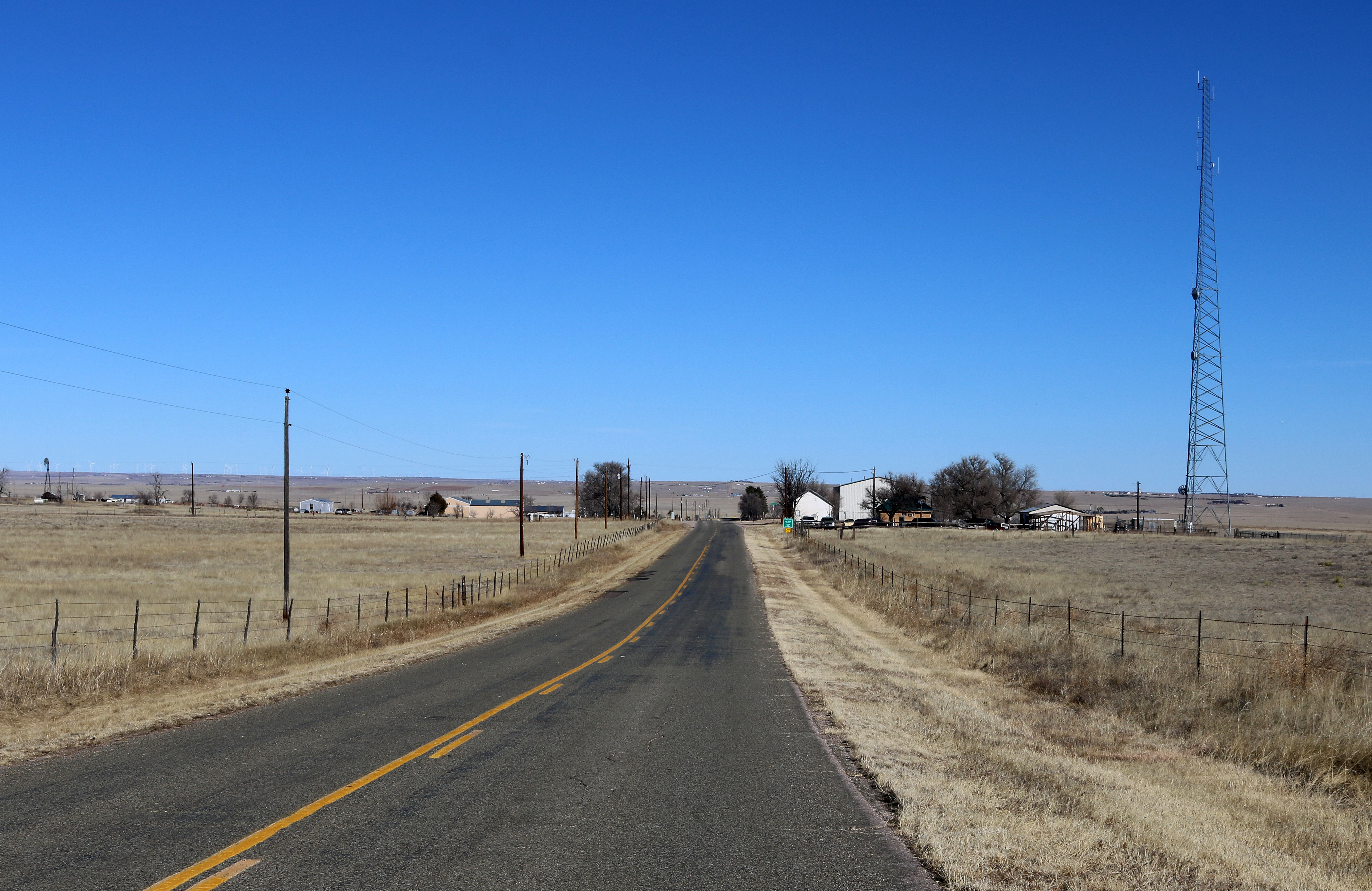 The unincorporated community of Truckton, Colorado, located in El Paso County. The view is to the north along Boone Road from just south of Truckton.